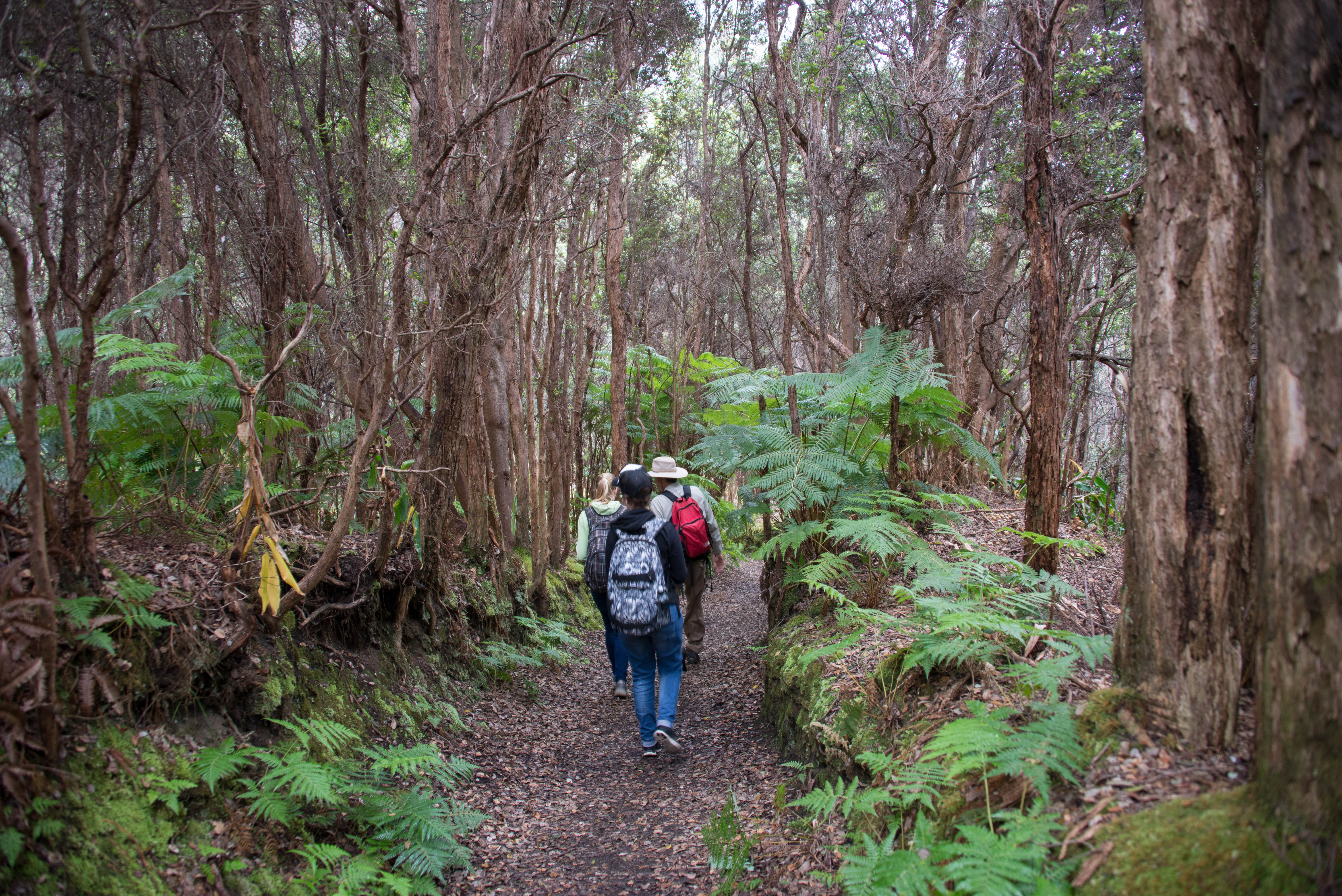 ‘Ōhi‘a trees and hāpu‘u tree ferns. Volunteer Eric leads a German speaking ranger guided program from Kīlauea Visitor Center to the Floor of Kīlauea Caldera.